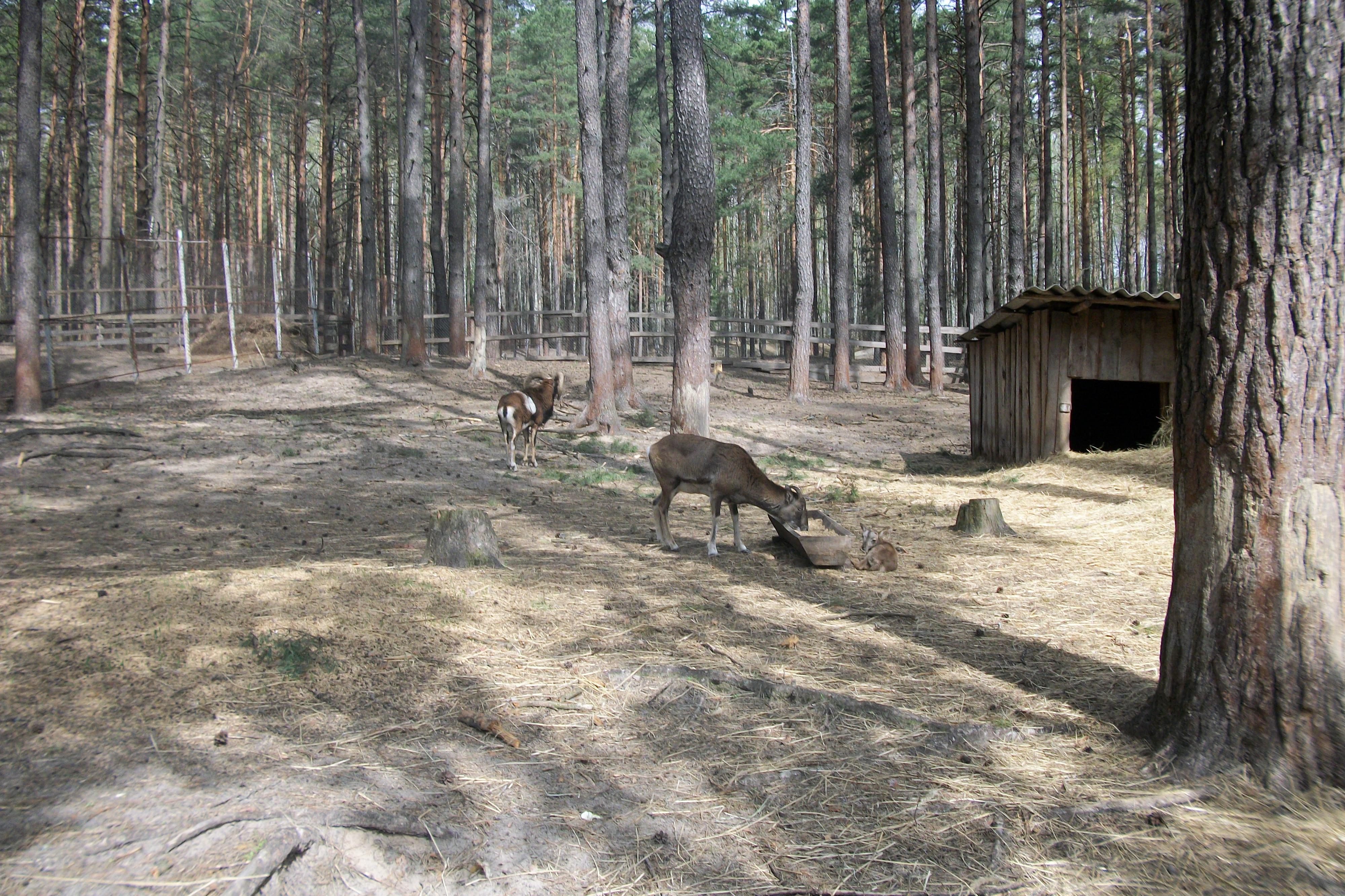 Khotynetsky District, Oryol Oblast, Russia